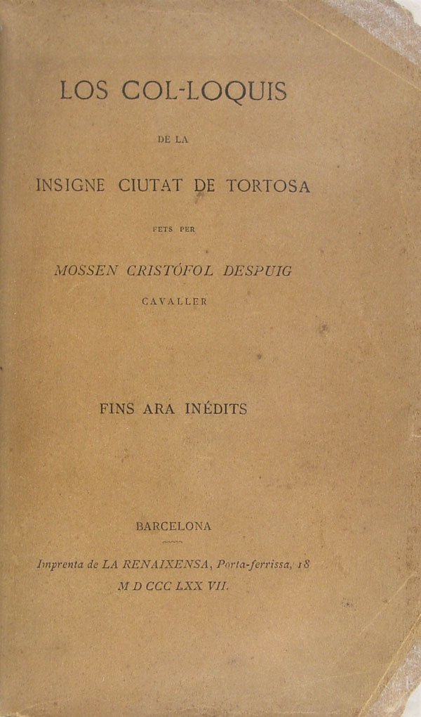 This is the 3dr page of an edition of "Los col·loquis de la insigne ciutat de Tortosa" whch had been printed in Barcelona in 1877.